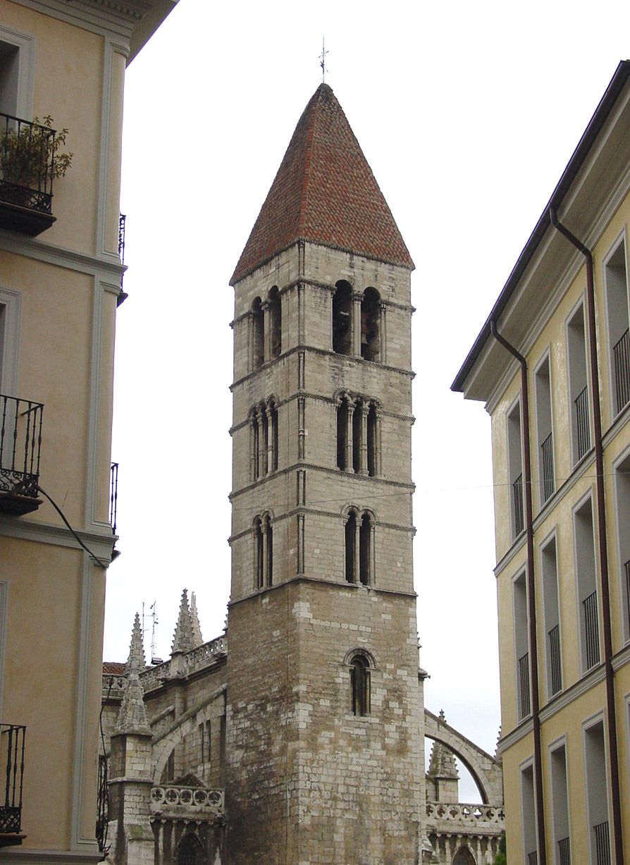 Romanica tower of the church "La Antigua" in Valladolid (Spain).